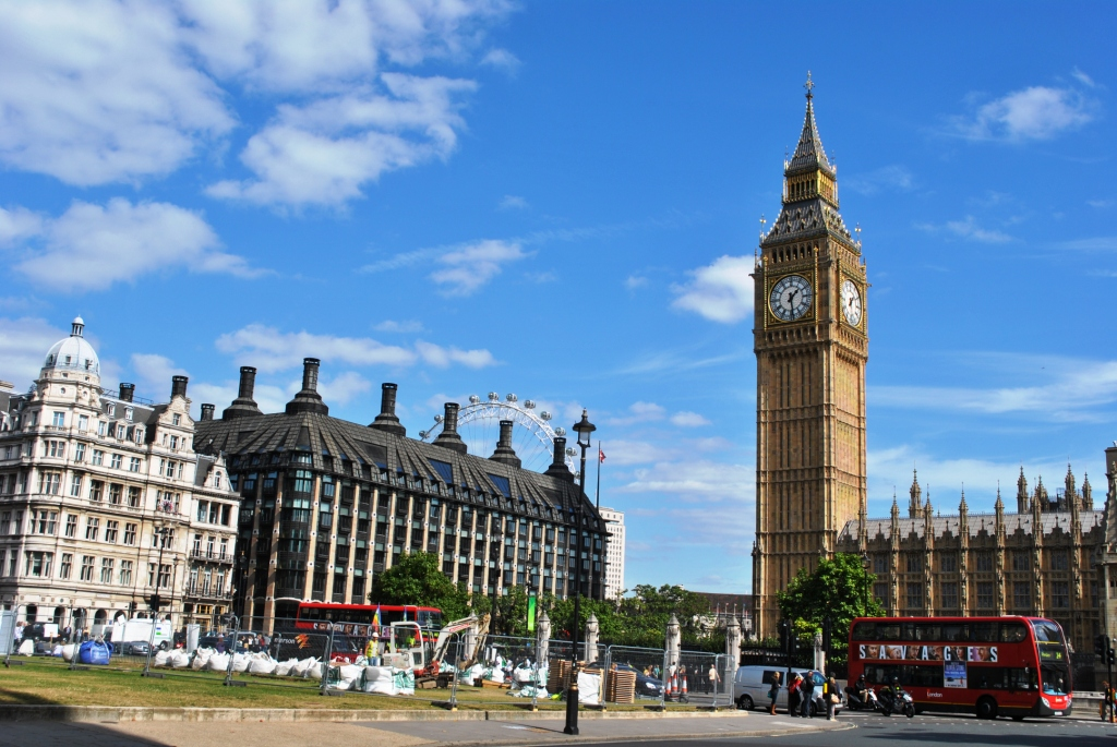 Houses of Parliament: the Palace of Westminster